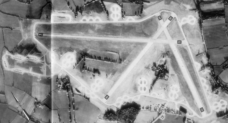 Aerial photograph of Gosfield Airfield, England, March 1945. Original photograph has been rotated to place North at top.